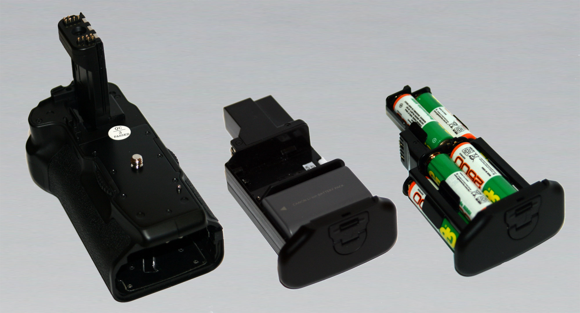 Battery Grip Canon BG-E3 & two cassettes (collage)